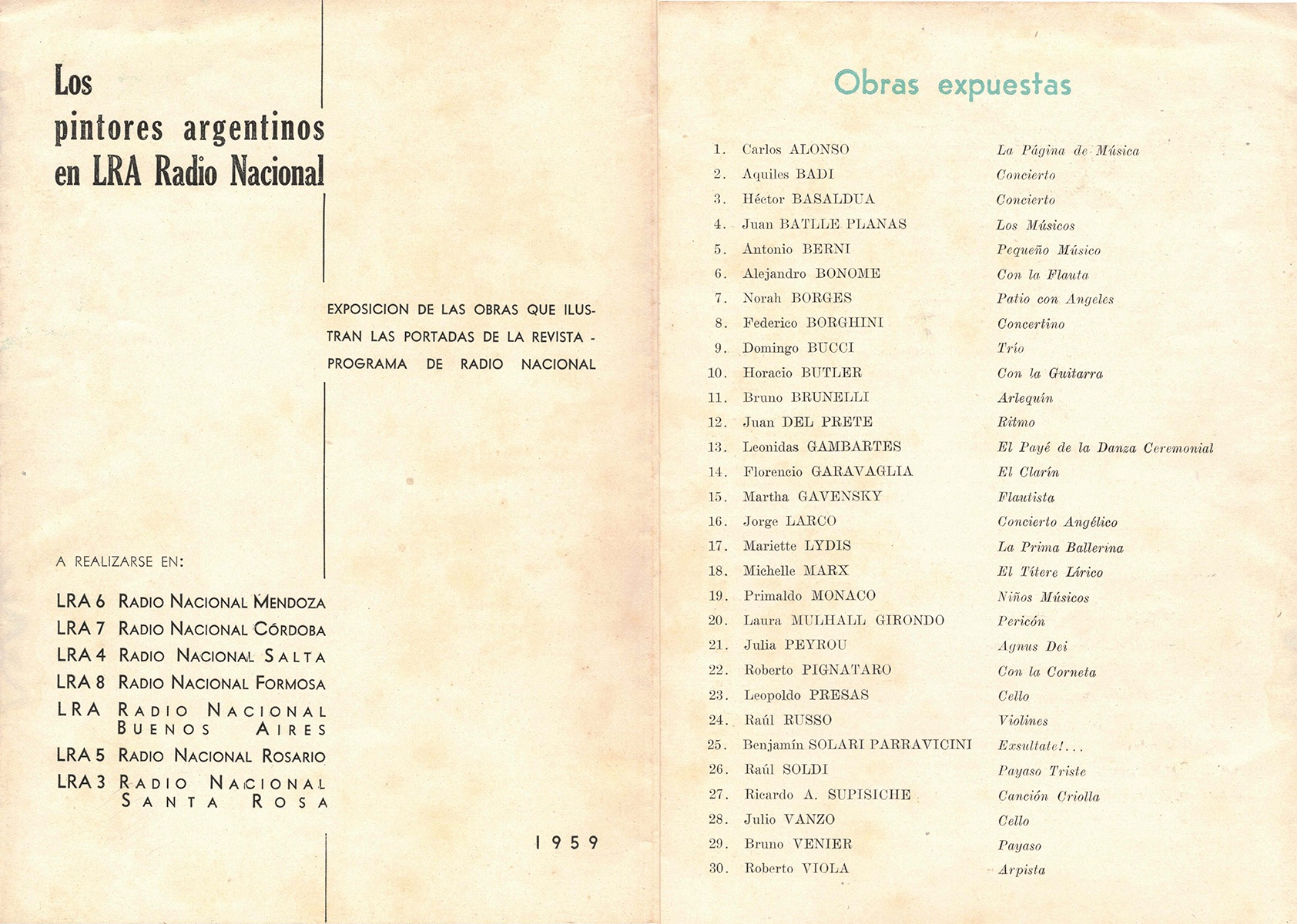 1959 brochure announcing the art exhibition known as "Los Pintores Argentinos en LRA Radio Nacional", including a list of the featured artwork and artists.